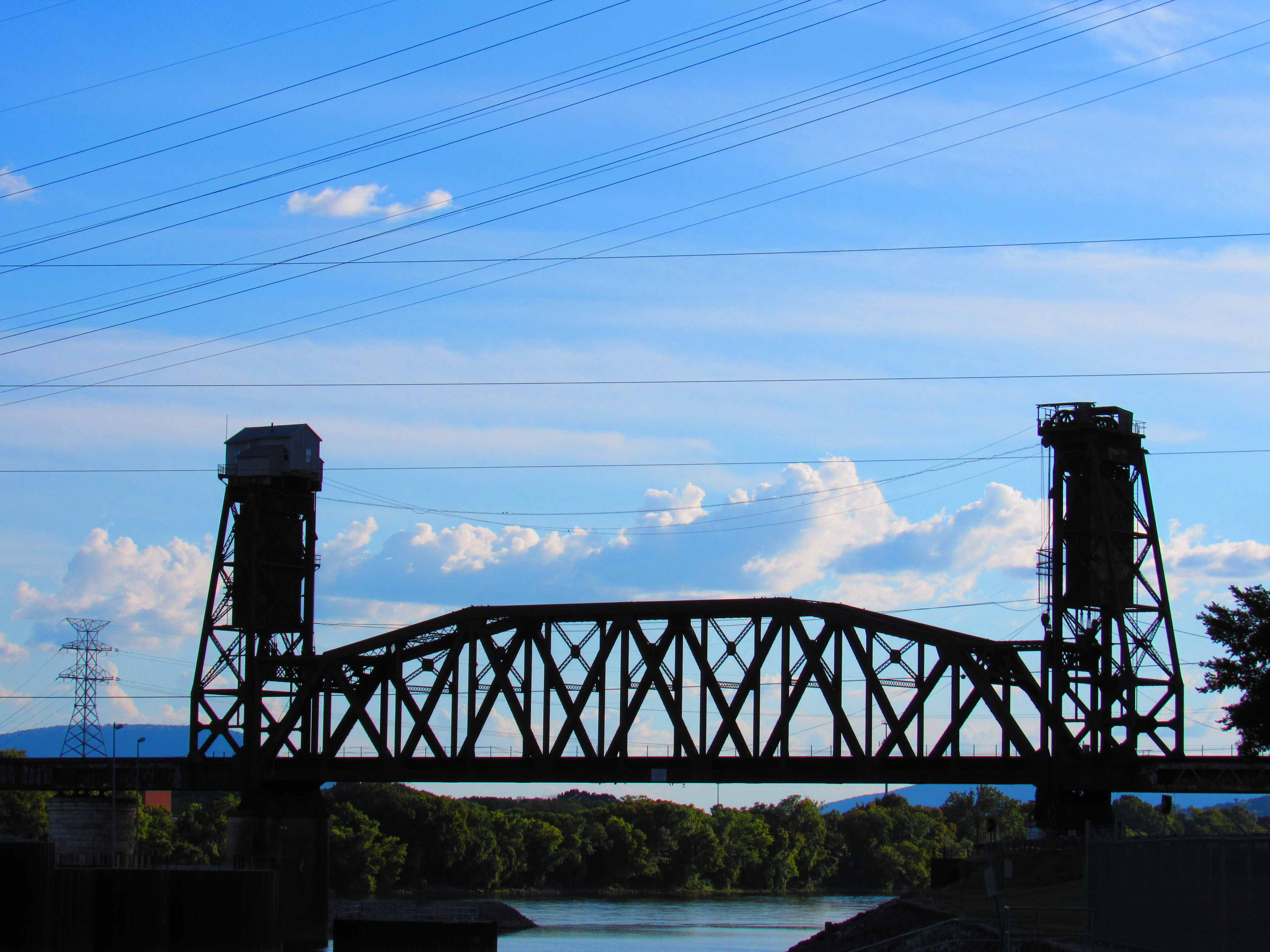 Tenbridge railway bridge over Tennessee River in Chattanooga (taken from just off North Access Road)